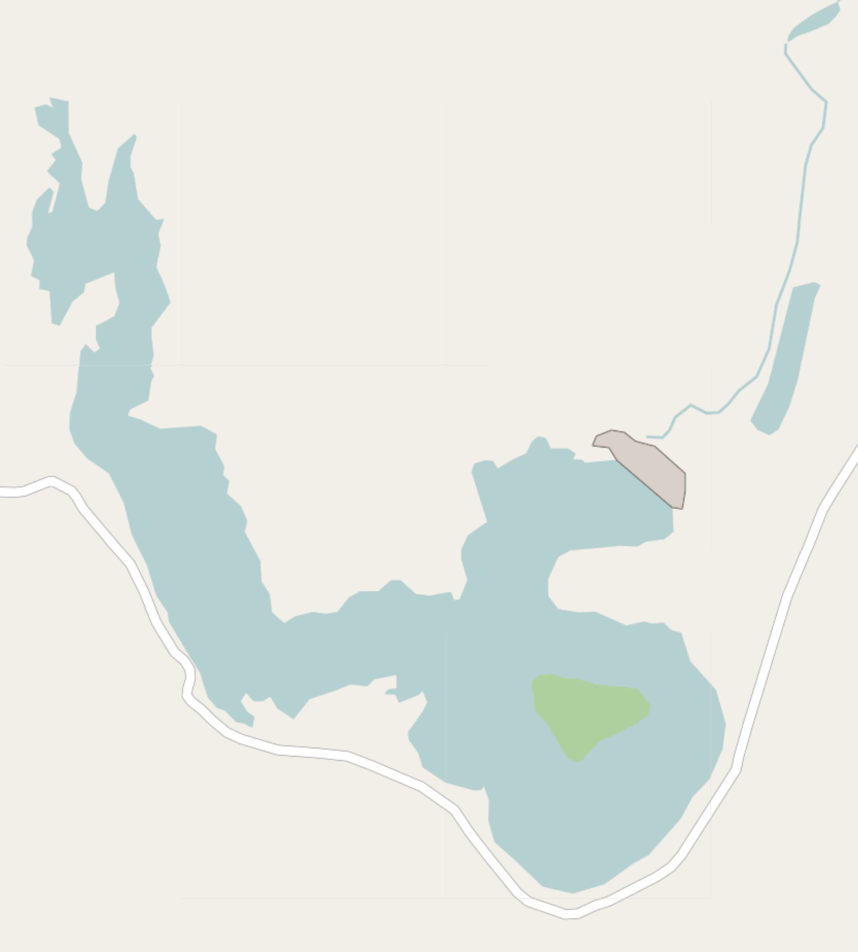 Shapo Reservoir, Haikou, Hainan, China This map of Hainan, China was created from OpenStreetMap project data, collected by the community. This map may be incomplete, and may contain errors. Don't rely solely on it for navigation.